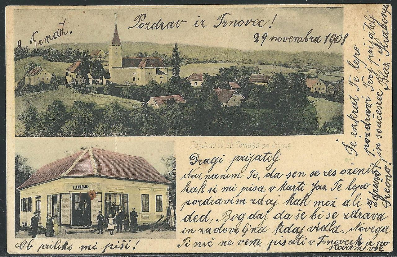 Postcard of Tomaž pri Ormožu.